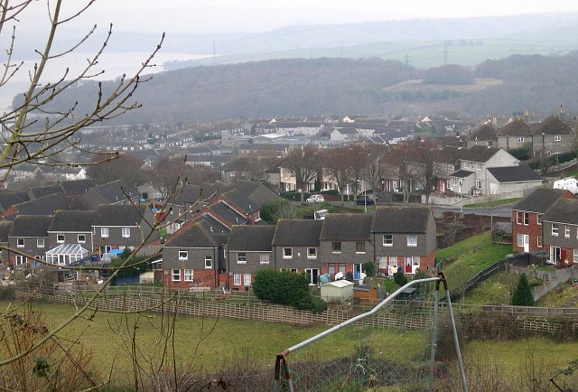 Ernesettle. Looking north from St Budeaux Churchyard